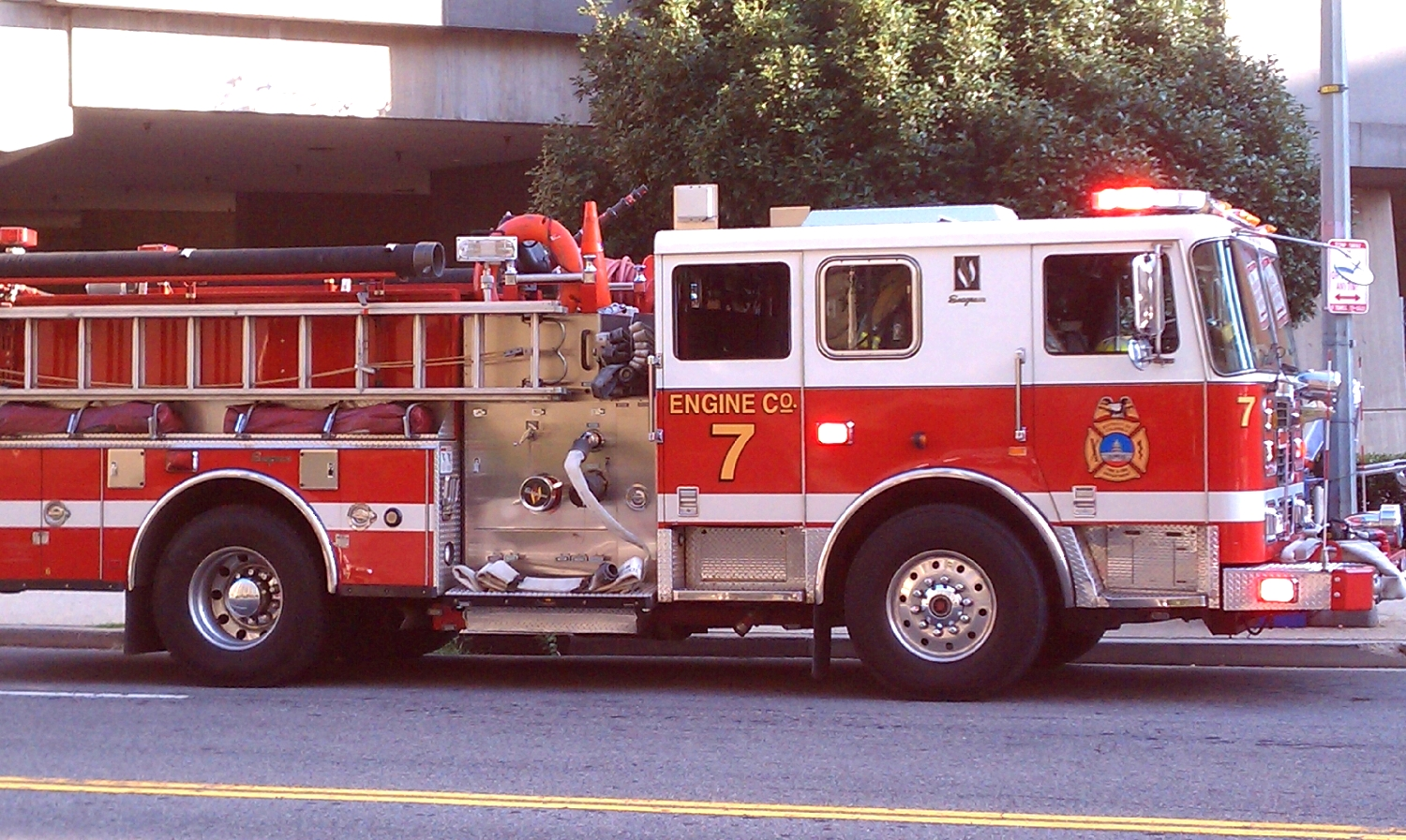 Left side view of the cab and part of the body of a District of Columbia Fire and Emergency Medical Services Department fire ladder truck.